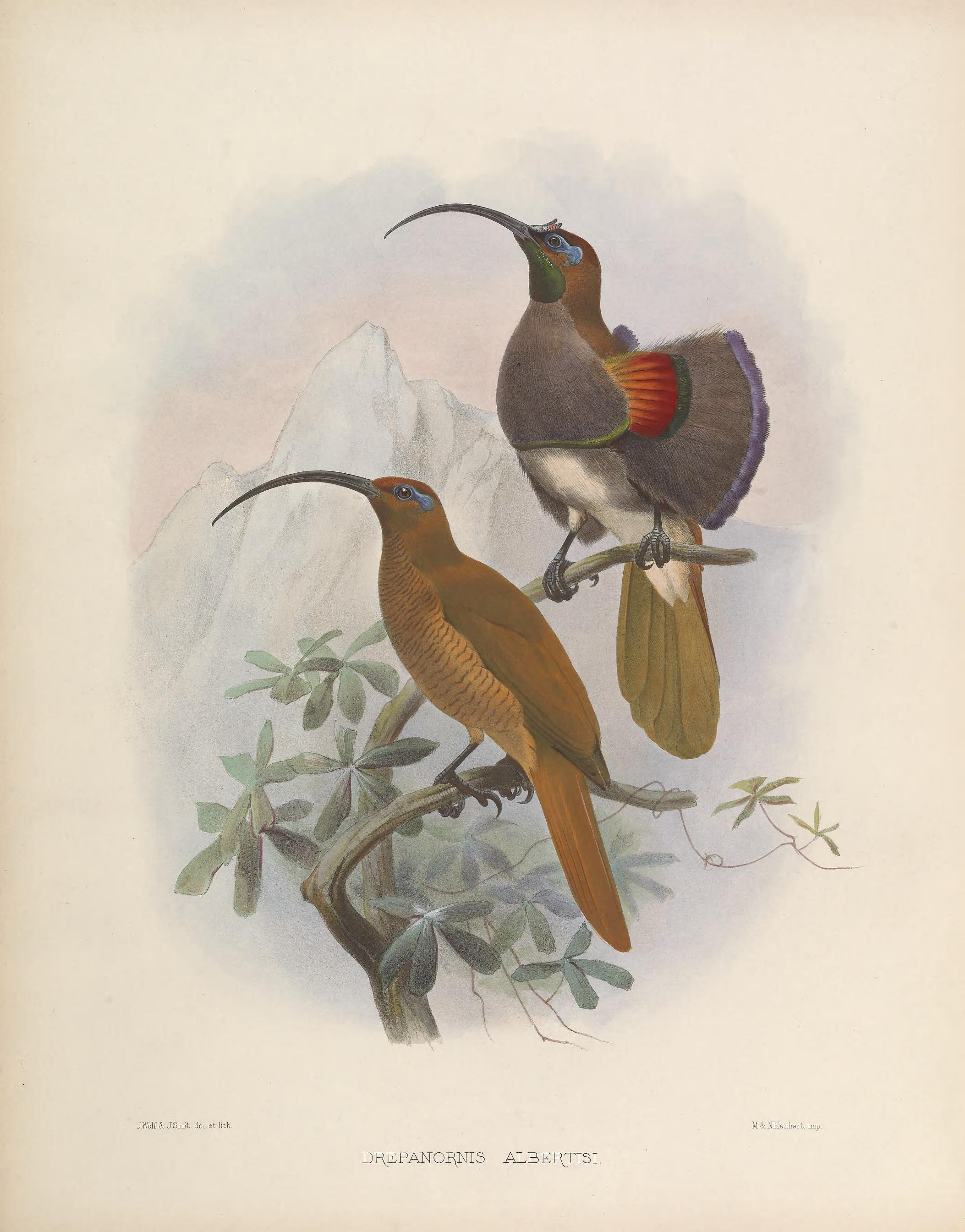 Drawing of 1873